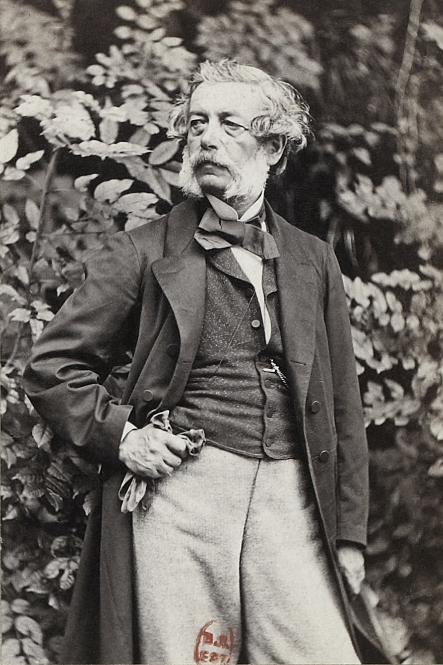 Franz Xaver Winterhalter, painter (1805-1873)